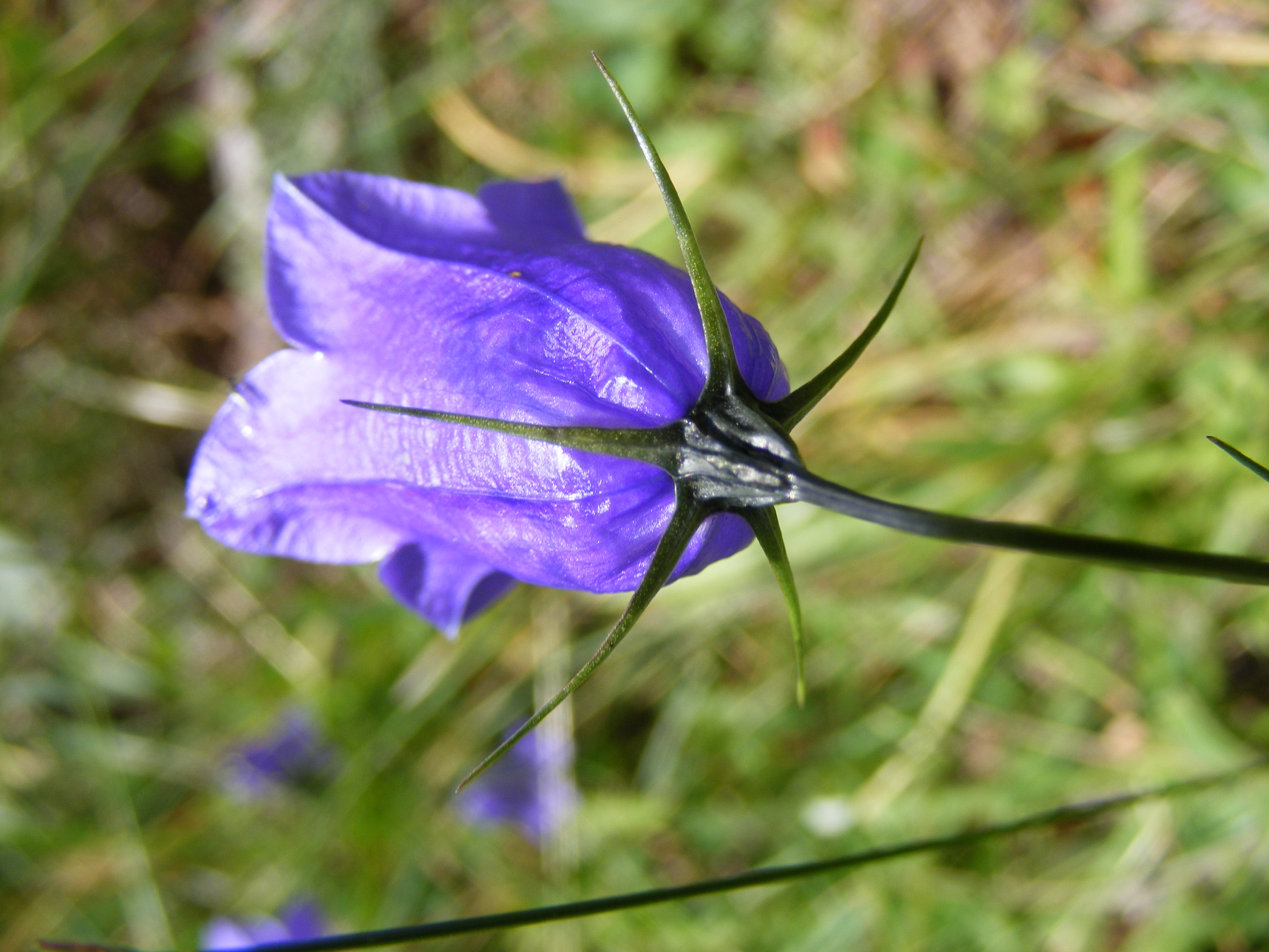 This photo shows Campanula scheuchzeri back of flower